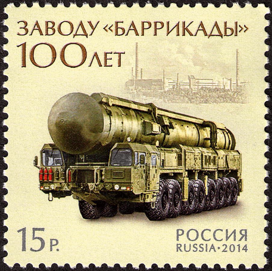 The 100th anniversary of the Barrikady Plant[1]. The stamp of Russia, 15.00 Rubles, 26 June 2014, PTC Marka Catalogue No 1833. Coated paper. Offset printing, multicoloured. Perforation: comb 11½:11½. Size of the stamp: 37×37 mm. Print run: 270,000. The mobile launcher of the Topol-M ballistic missile. In the background: the view of the Barrikady Plant in Volgograd.